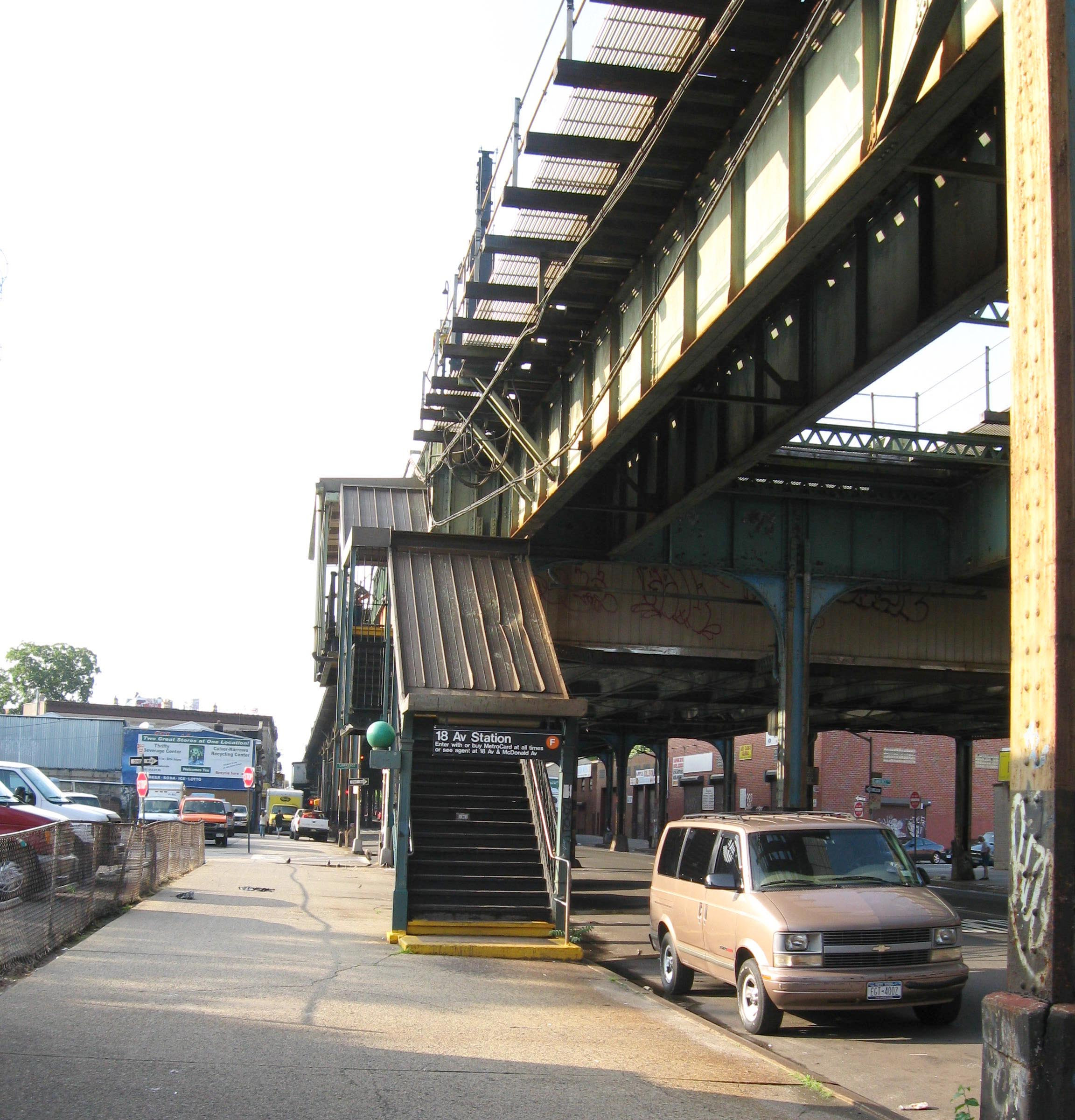 Looking northwest at Lawrence Avenue end of en:18th Avenue (IND Culver Line) station on a mostly sunny late afternoon.